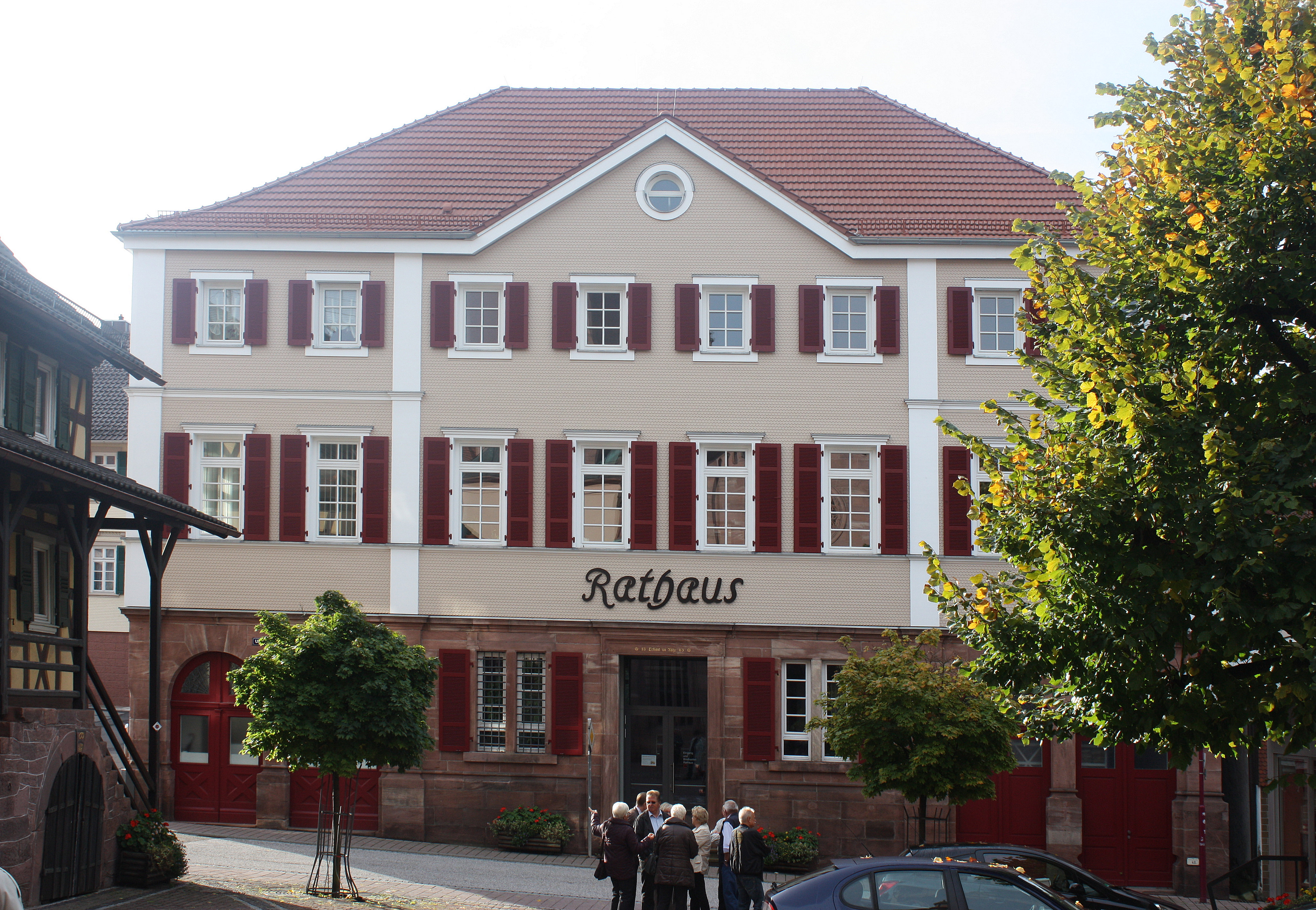 Loffenau, the town hall